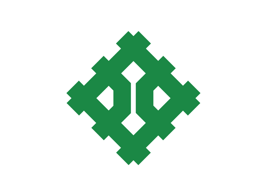 Flag of Fukui, Fukui